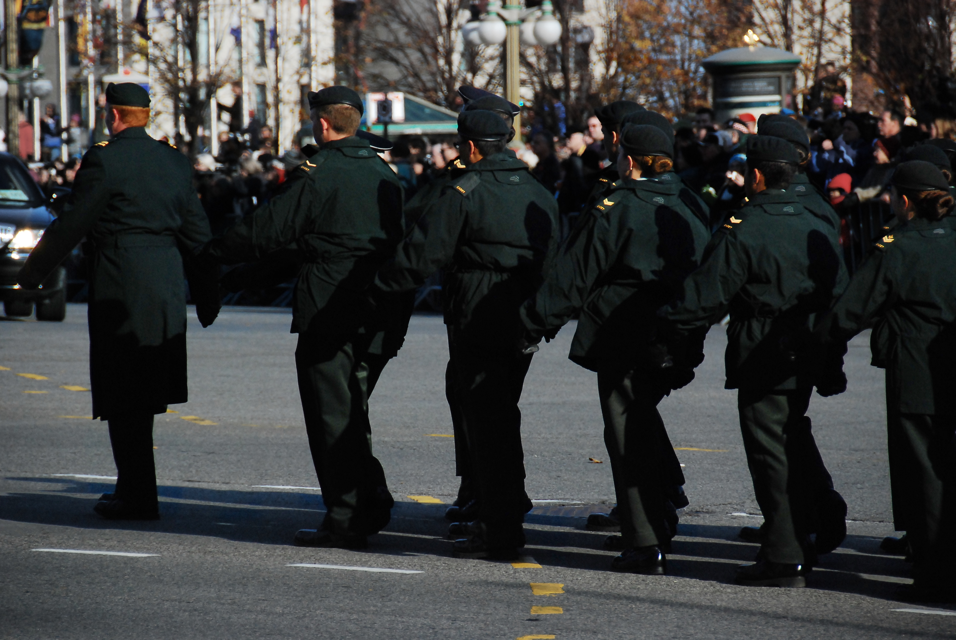 Members of the Royal Canadian Army Cadets march to the National War Memorial during Remembrance Day ceremonies in Ottawa.